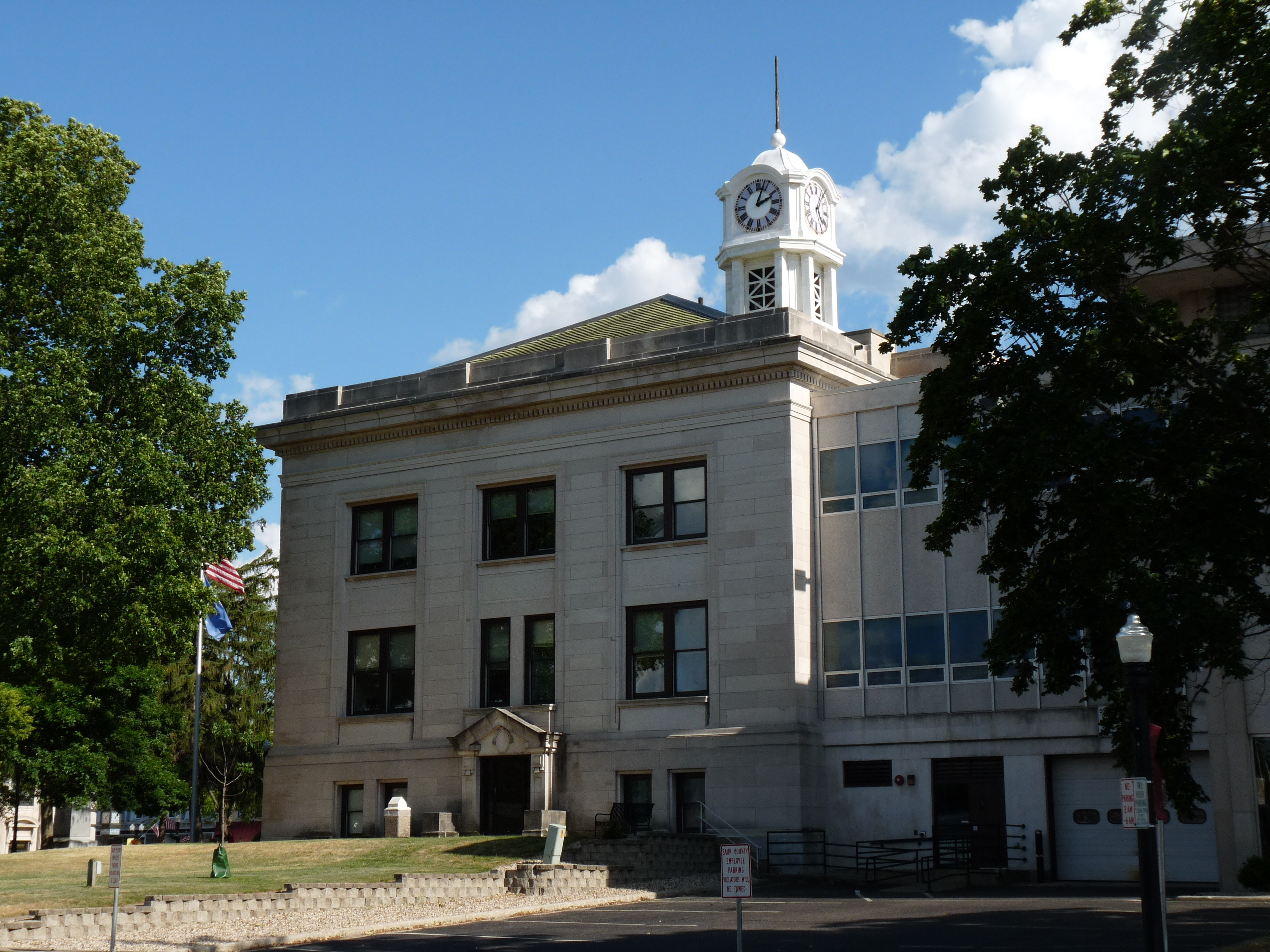 The courthouse in Sauk County, Wisconsin was designed by Ferry and Clas in Classical Revival style and built in 1905. Today it is listed on the National Register of Historic Places.